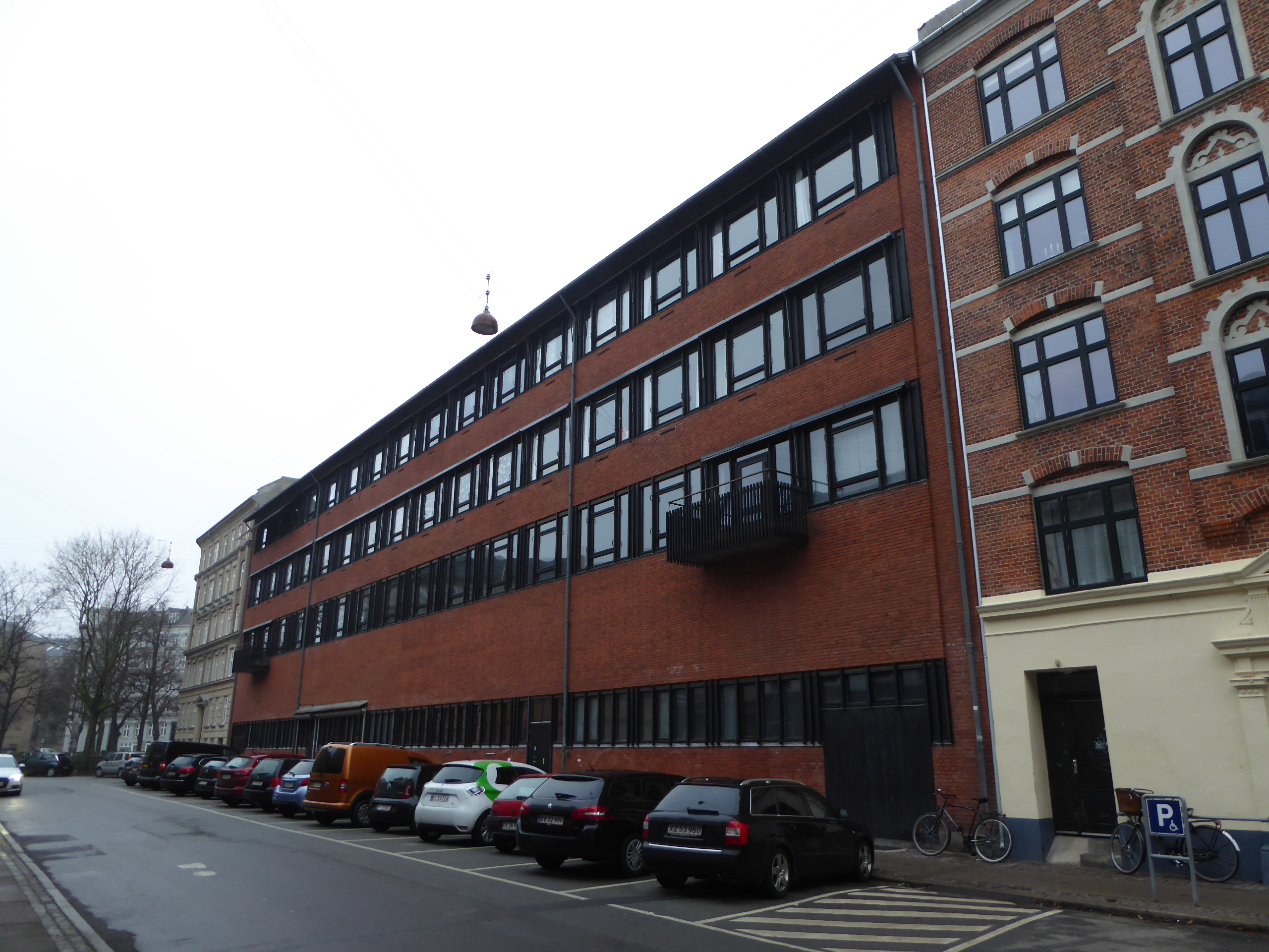 A part of Randersgades Skole at Løgstørgade in Østerbro in Copenhagen.